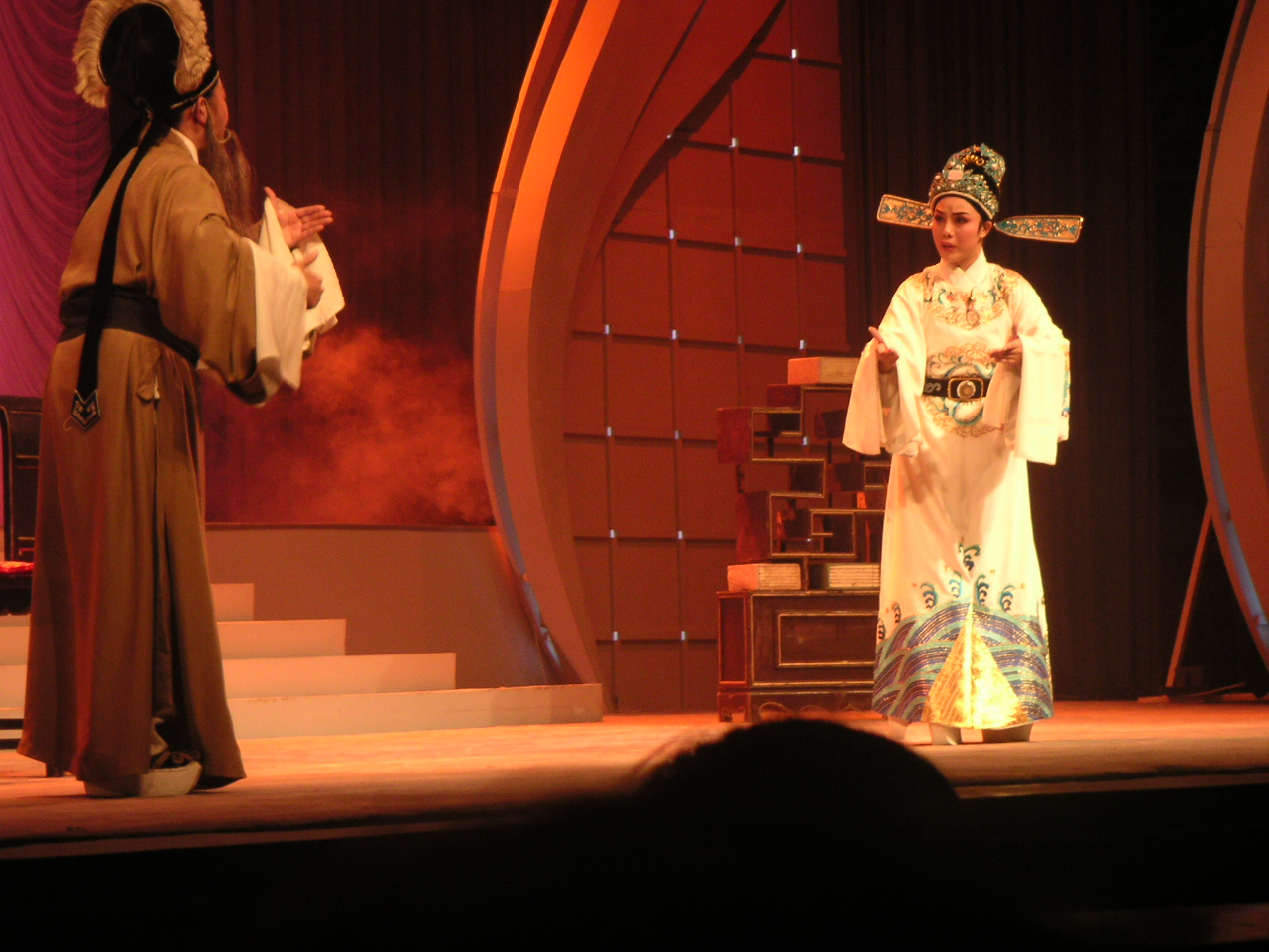 越剧《白罗衫》 Two actresses in a Shaoxing opera performance. The actress in white is Fan Xiaoping (范晓萍)